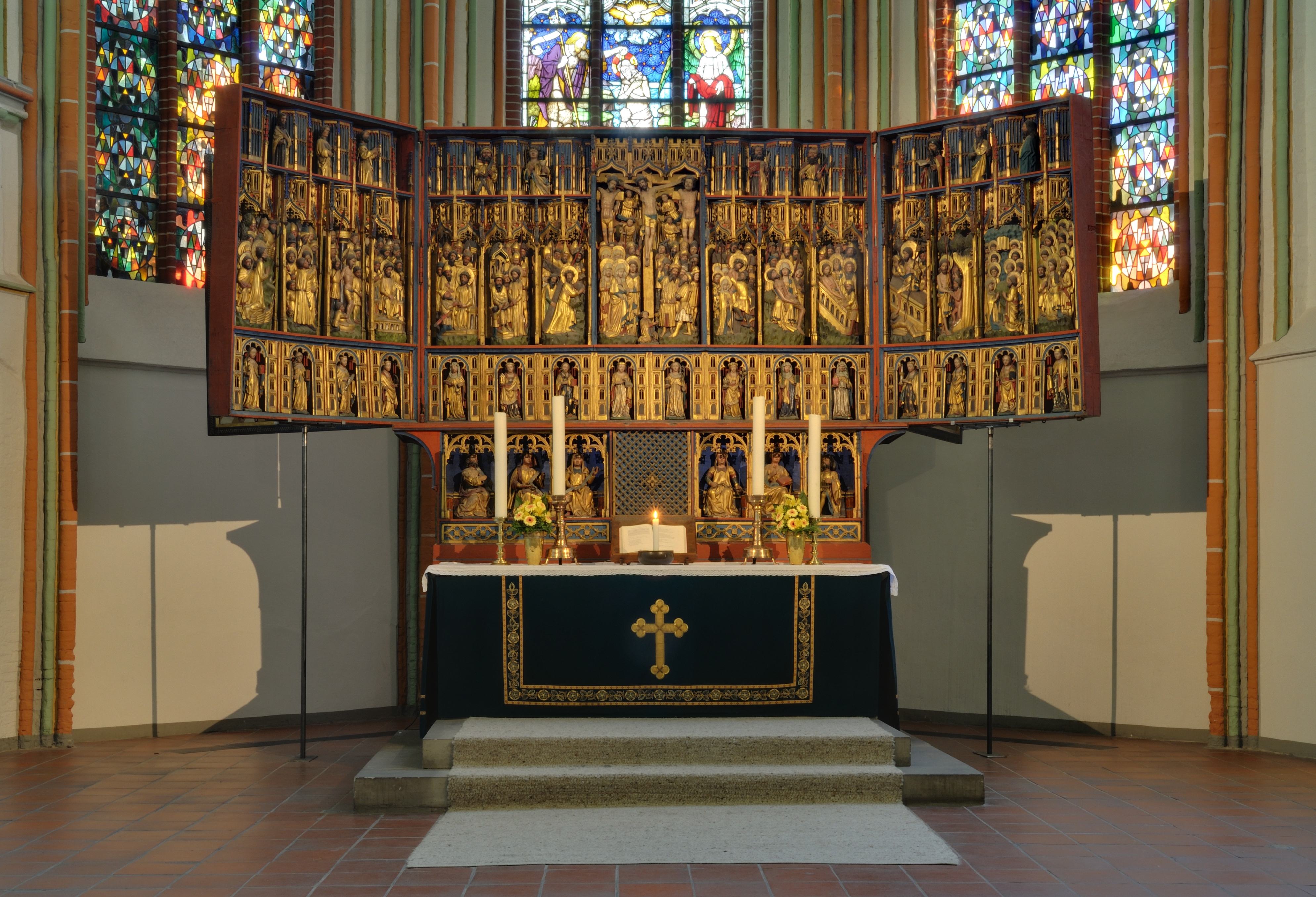 Lüneburg, Saint Johannis Church (altar)